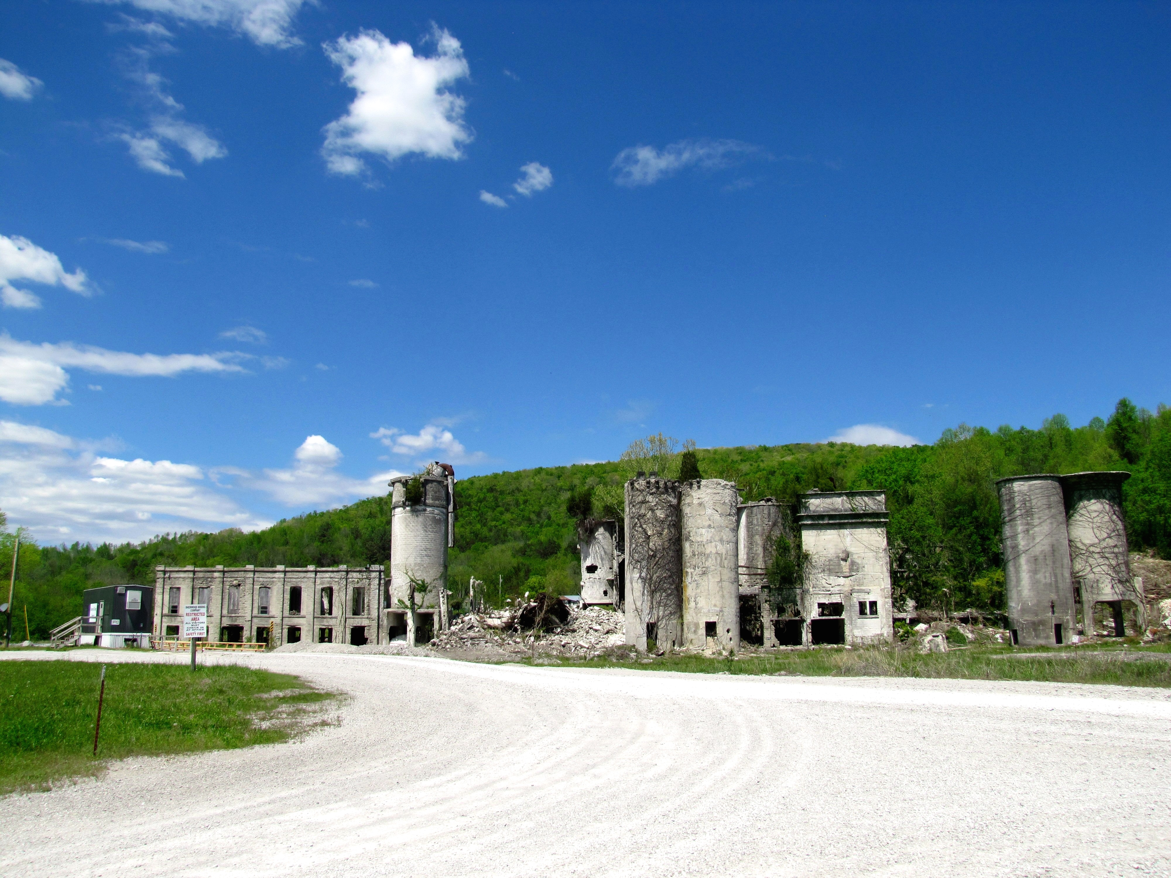 Buildings of the Gager Lime Manufacturing Company complex in Sherwood, Tennessee, United States. This company operated from 1892 to 1949.